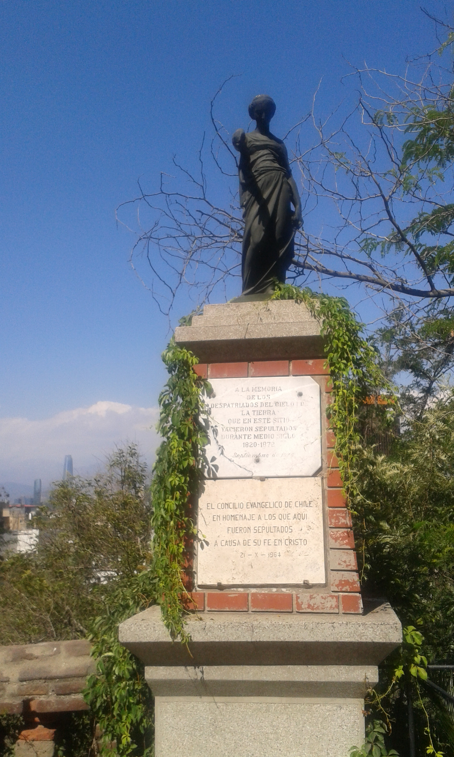 Memorial for non catholic buried at the hillside of the Santa Lucia in Santiago de Chile. El siguiente texto aparece en una revista de la ciudad de Santiago: LA ESTATUA DE LOS HEREJES. Recuerda esta figura emblenititica uno de los mas dolorosos episodios de nuestra laboriosa civilizacion, cual fue el entierro que como en sitio vi1 se hizo en la esplanada del castillo de Hiclalgo de los primeros protestantes que despues de la revolucion de la independencia (antes no existia uno solo) fallecieron en Santiago. Es esta una bonita i bien acabada reproduccion de la estatua del fecundo escultor Mathurin Moreau , i que lleva por su actitid, depositando una flor, el nombre apropiado de Recuerdo. En memoria de los primeros desterrados que precedieron a la cultura cristiana que tanto nos honra hoi dia, se lee en una plancha de marmol que adorna este monumento, rodeado de jovenes cipreces, la siguiente inscripcion : A LA MEMORIA De Los espatriados del cielo y de la tierra que en este sitio yacieron sepultados durante medio siglo 1820-1872 setiembre de 1872